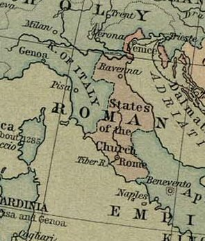 States of the Church of Rome, 1204